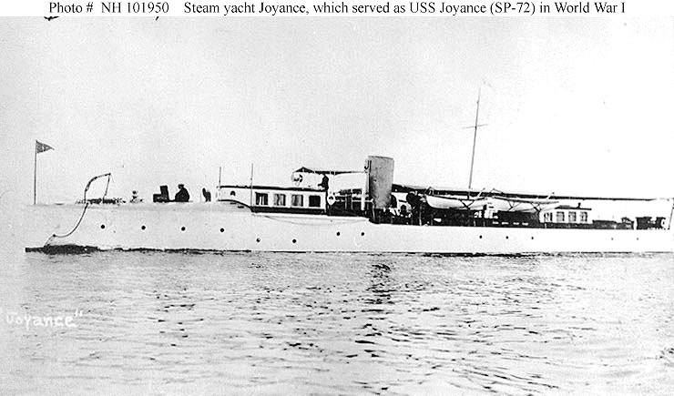 Steam yacht Joyance prior to her 1917-1919 United States Navy service as patrol vessel USS Joyance (SP-72).